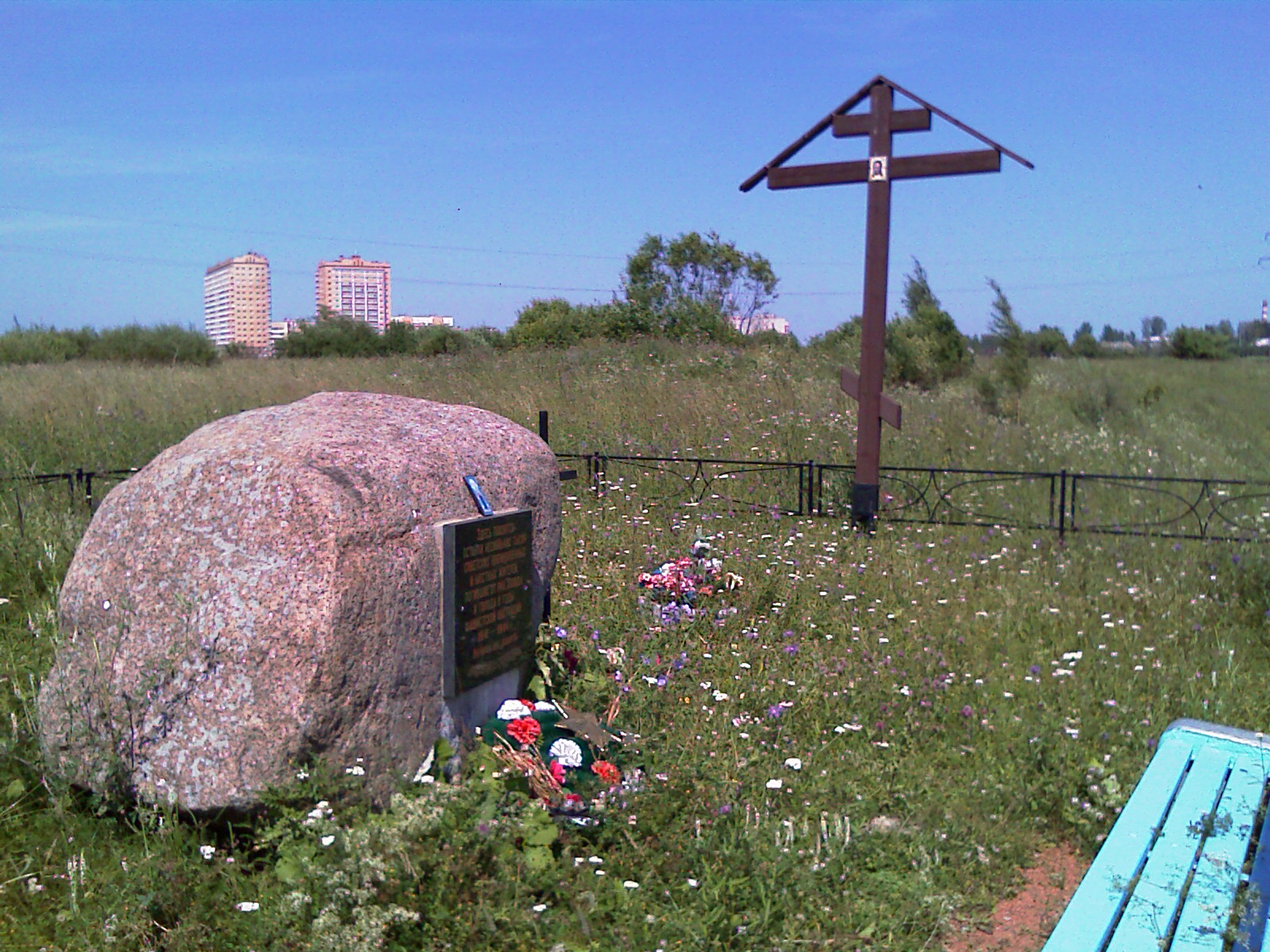 Nikolskoye WWII memorial for the zoomed plaque, see File:Nikolskoye WWII memorial zoomed.jpg